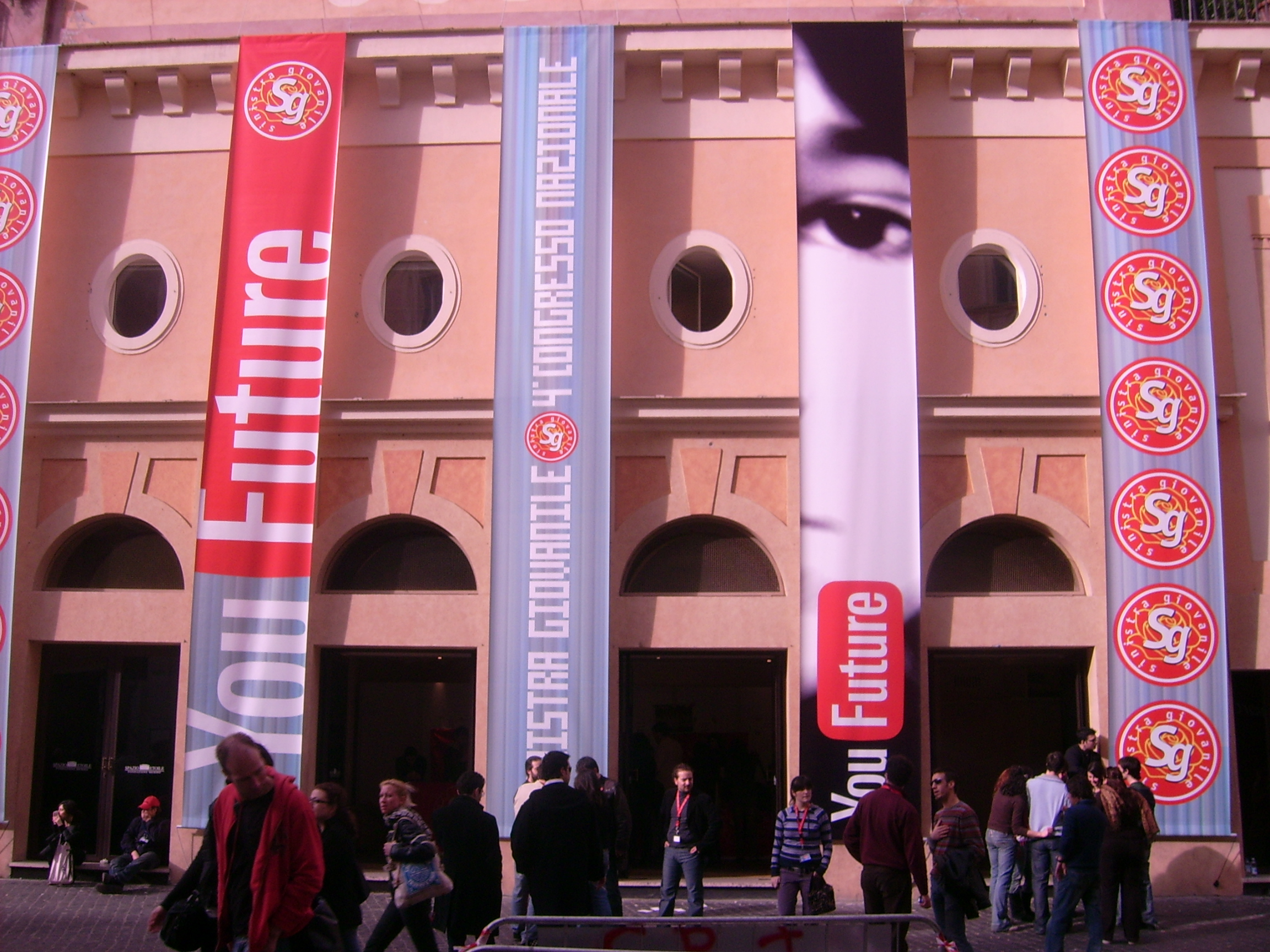 National Congress of the Left Youth, 2007